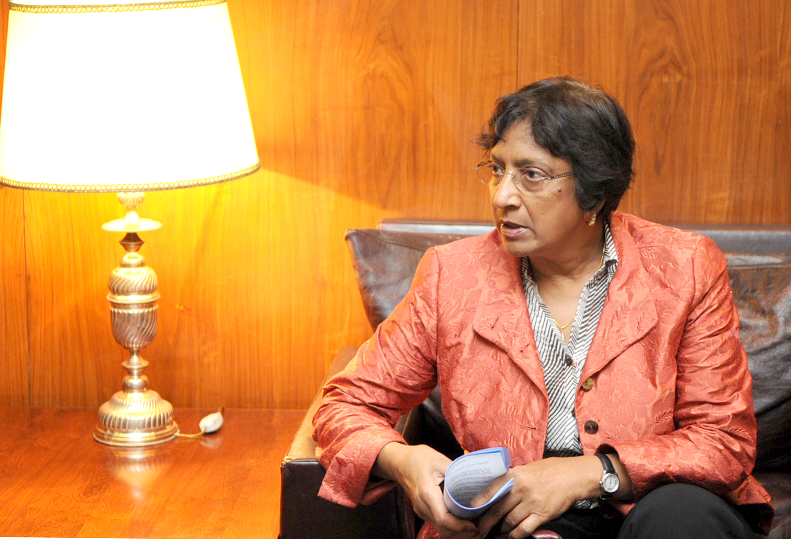 Navanethem Pillay, United Nations High Commissioner for Human Rights, during a visit to Brasil on November 12, 2009.